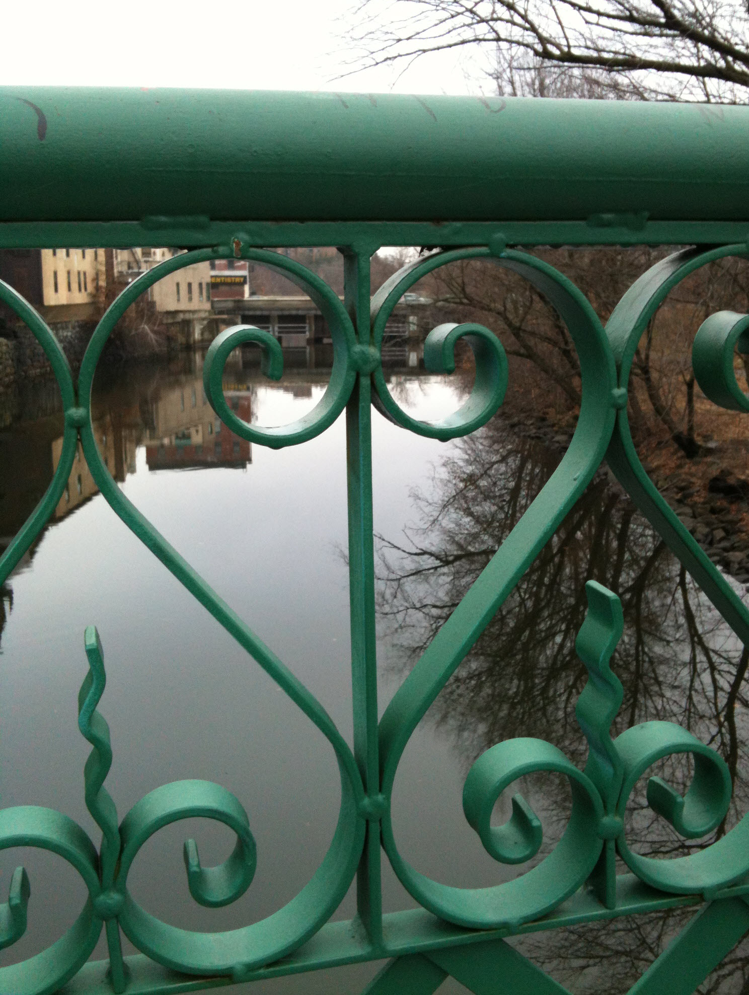 A view from the Medford Pipe Bridge highlighting the ironwork railing details. This view looks from the Pipe Bridge toward the Cradock Bridge site.